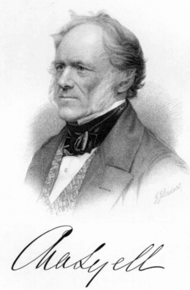 Portrait of Charles Lyell(1797-1875), Scottish lawyer, geologist